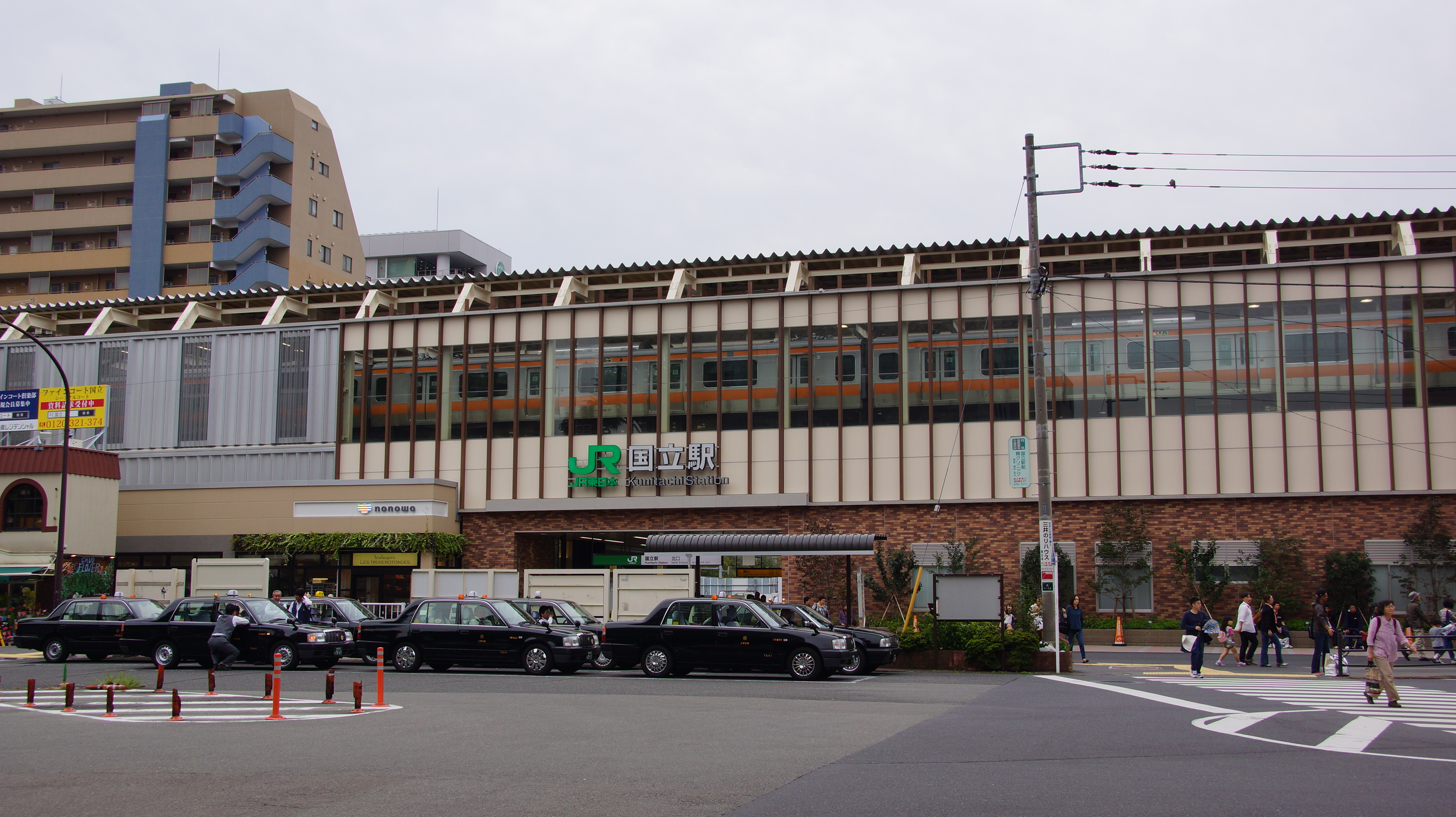 The north entrance and forecourt of Kunitachi Station on the Chuo Line